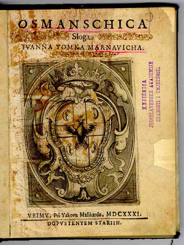 The cover of the book Osmnchica